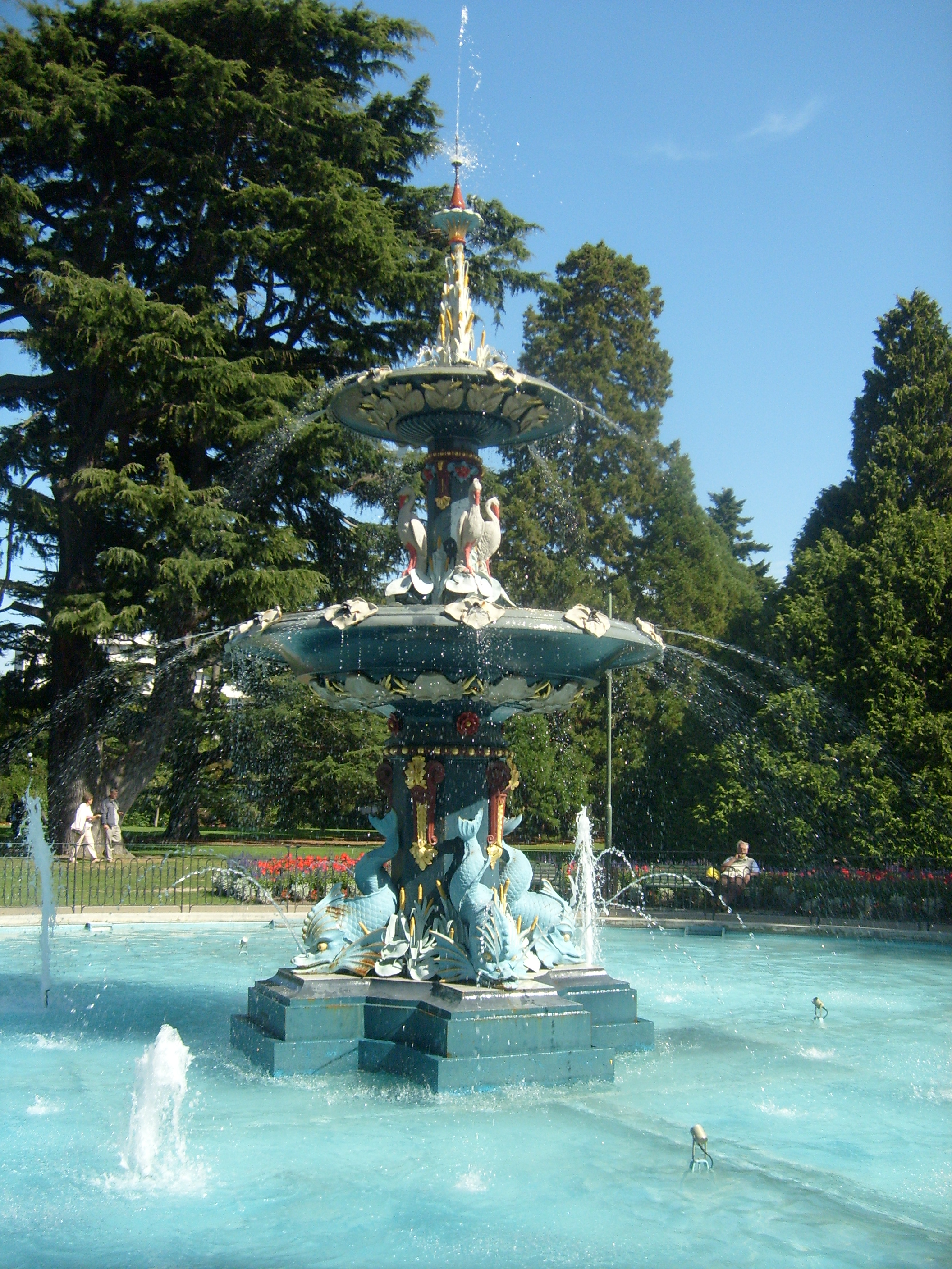 A shot of the water fountain at Christchurch botanical gardens.